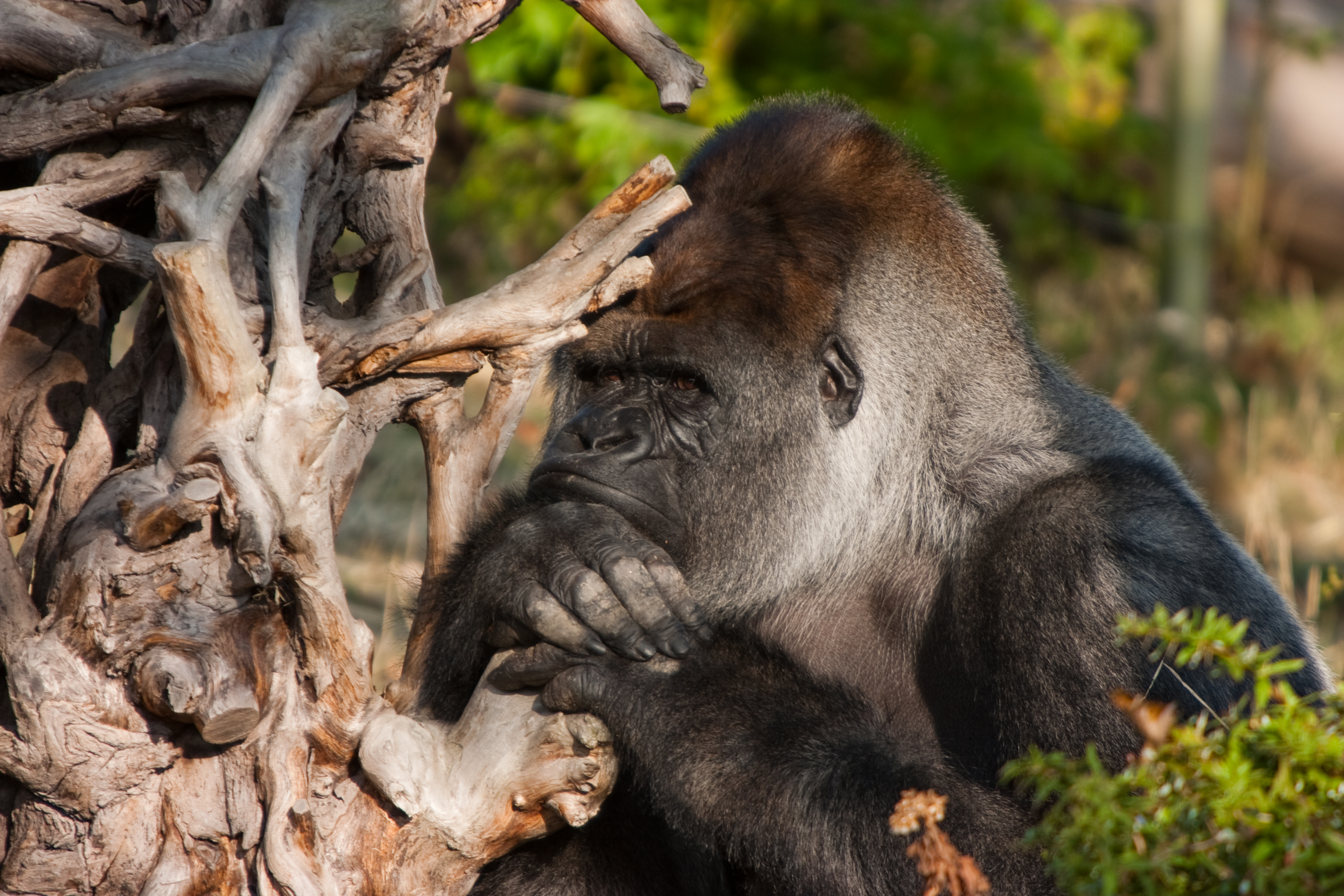 Bokito is thinking